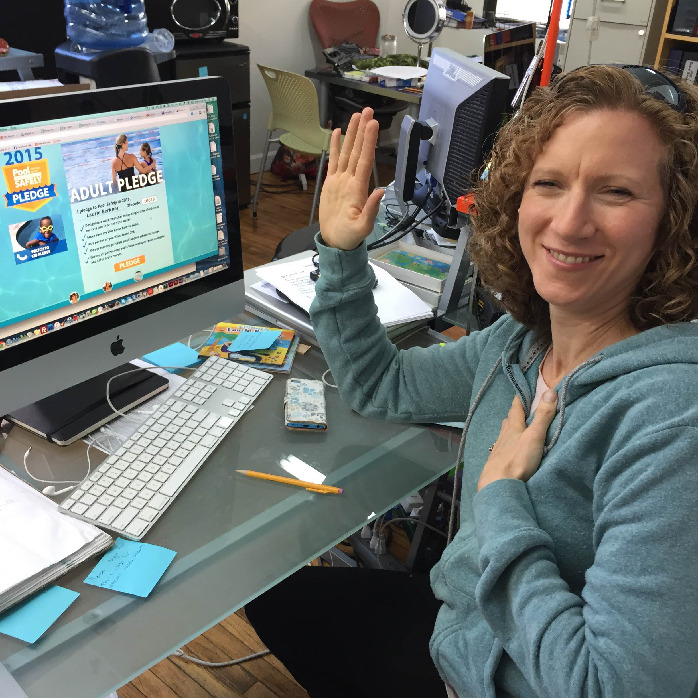 Children's musical artist Laurie Berkner takes the Pool Safely Pledge.